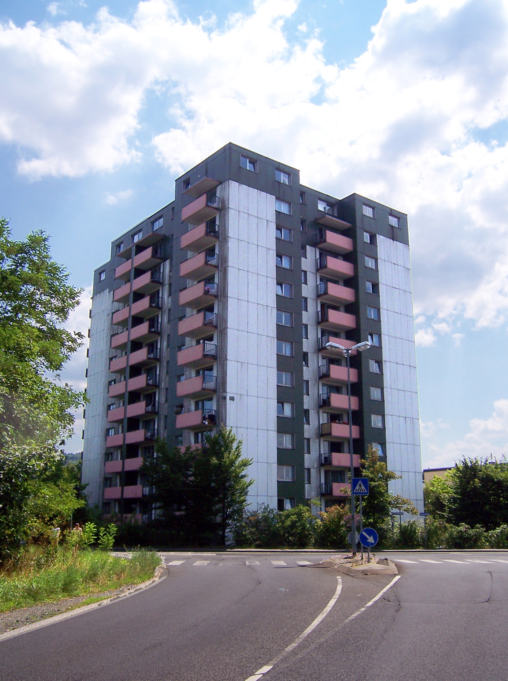 Dorm for student families Marburg-Richtsberg